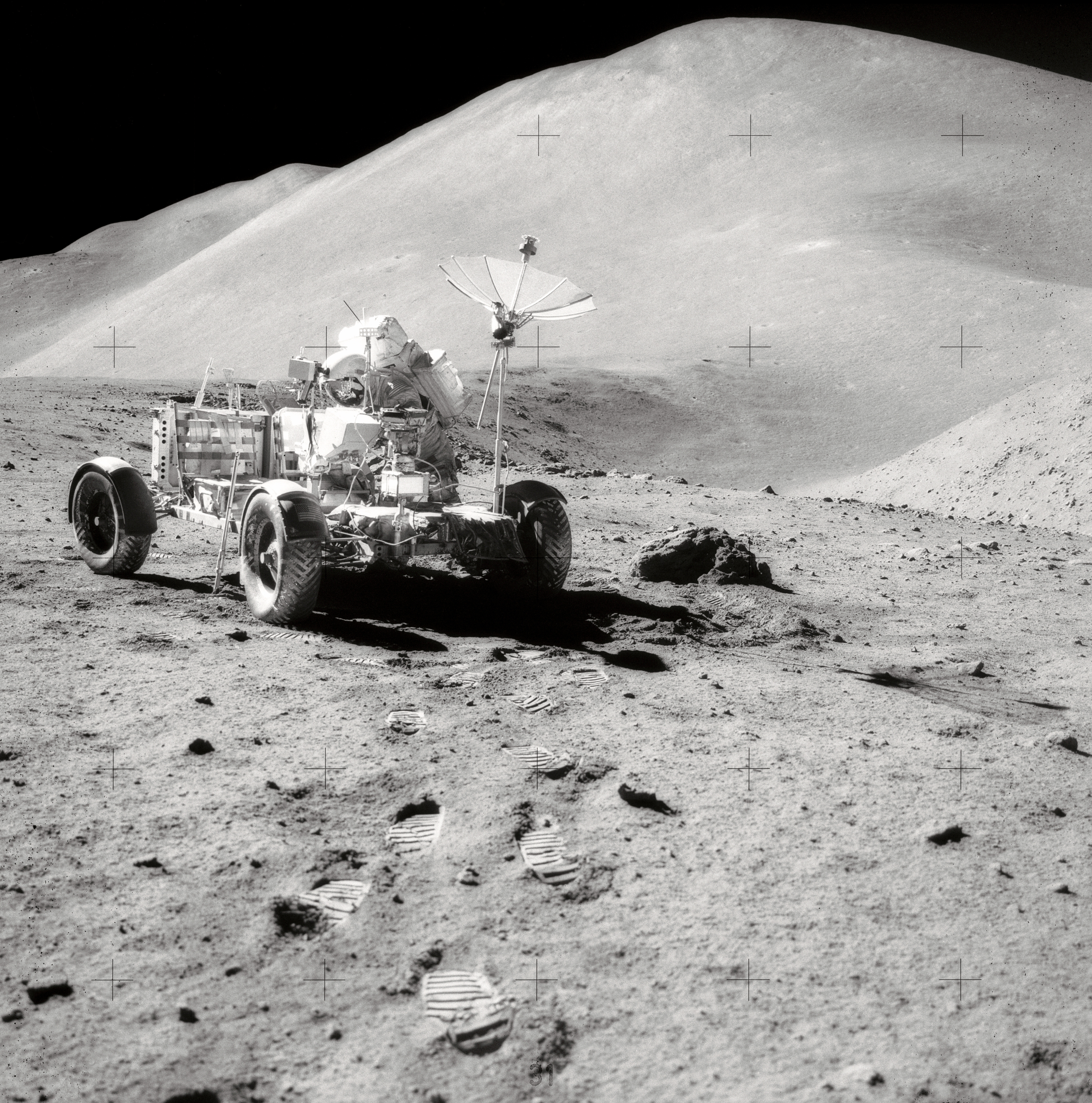 David R. Scott, Commander of Apollo 15, works at the Lunar Roving Vehicle (LRV) during the third lunar surface extravehicular activity (EVA) of the mission at the Hadley-Apennine landing site. Hadley Rille is at the right center of the picture. Hadley Delta, in the background, rises approximately 4,000 meters (about 13,124 feet) above the plain. St. George Crater is partially visible at the upper right edge. This photograph was taken by Lunar Module pilot James B. Irwin. This view is looking almost due South.